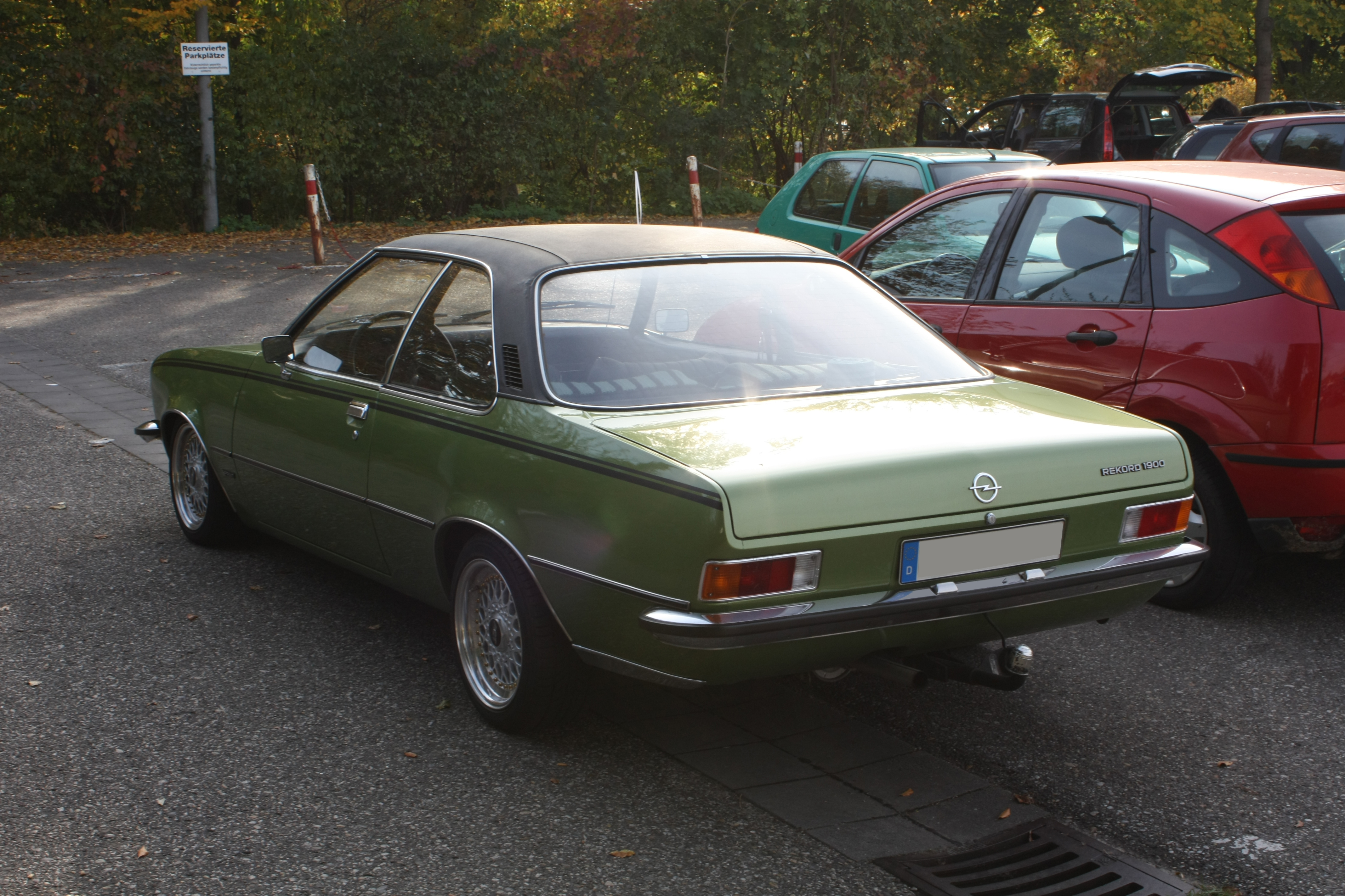 Opel Rekord D 1900 Coupé